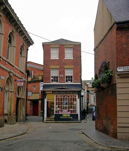 Land of Green Ginger, Hull A small street with a unique name.